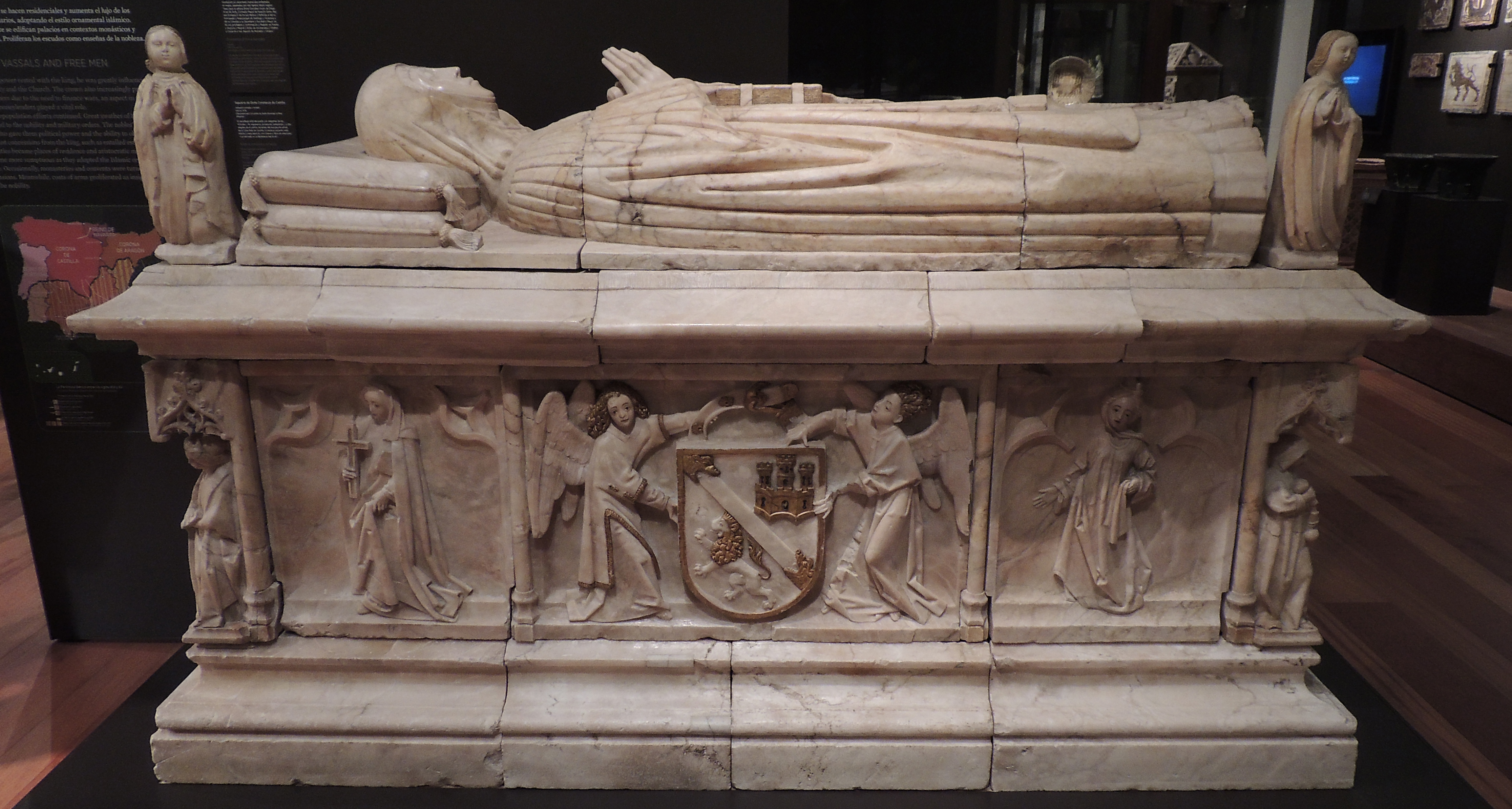 Sarcophagus of Constance of Castile Eril (before 1405–1478), granddaughter of Peter I.